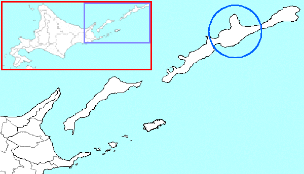 The location of Shyna in Nemuro Subprefecture, Hokkaido Prefecture, Japan.